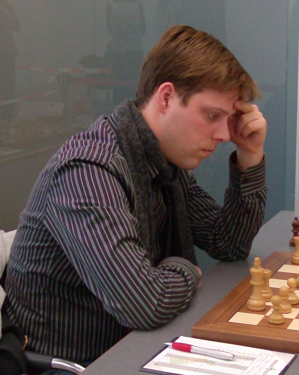 Dennis de Vreugt, chess grandmaster from the Netherlands